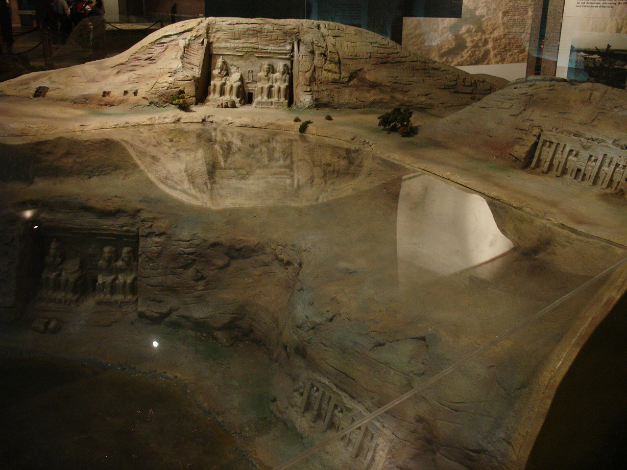 A scale model showing the original location of the 13th century BCE Abu Simbel temples, the site submerged under reservoir water since the 1970s, and the rescued and relocated temples' new higher sites. The photo was taken of a display at the Nubian Museum, Aswan, Egypt.